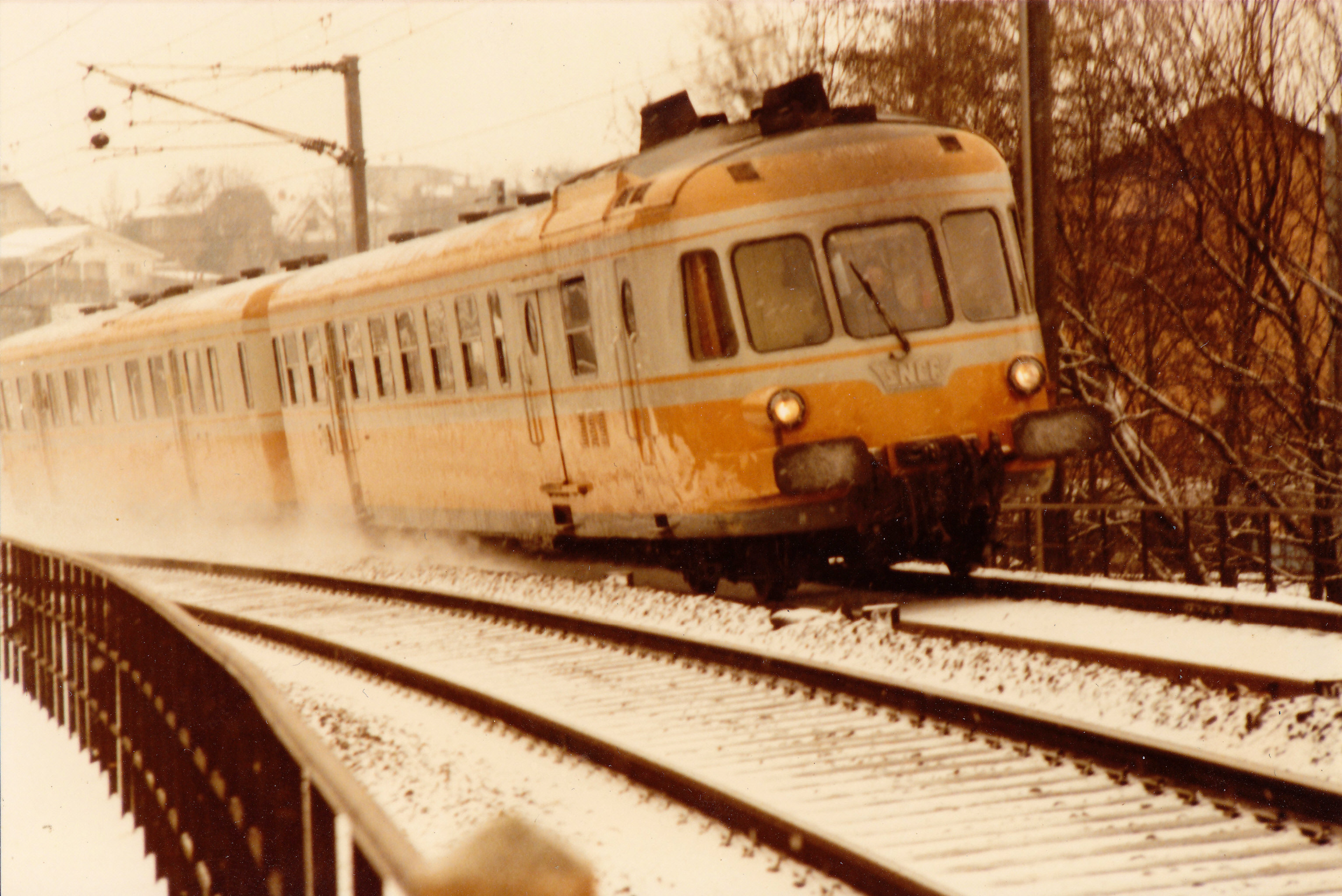 SNCF Class X 2720